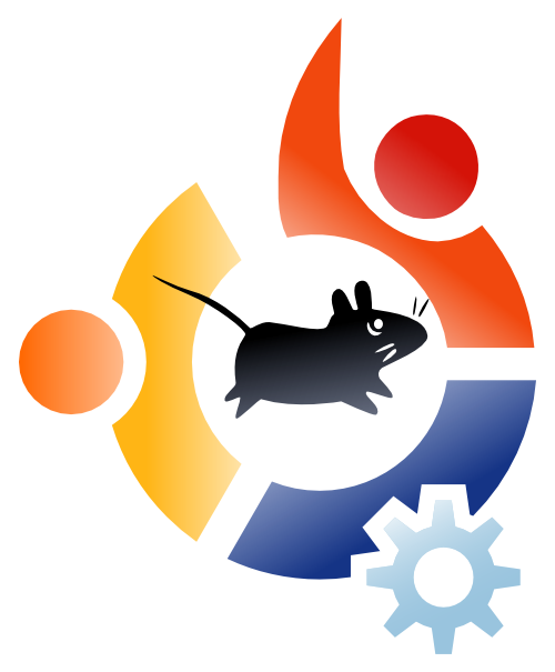 Full Circle Magazine's logo